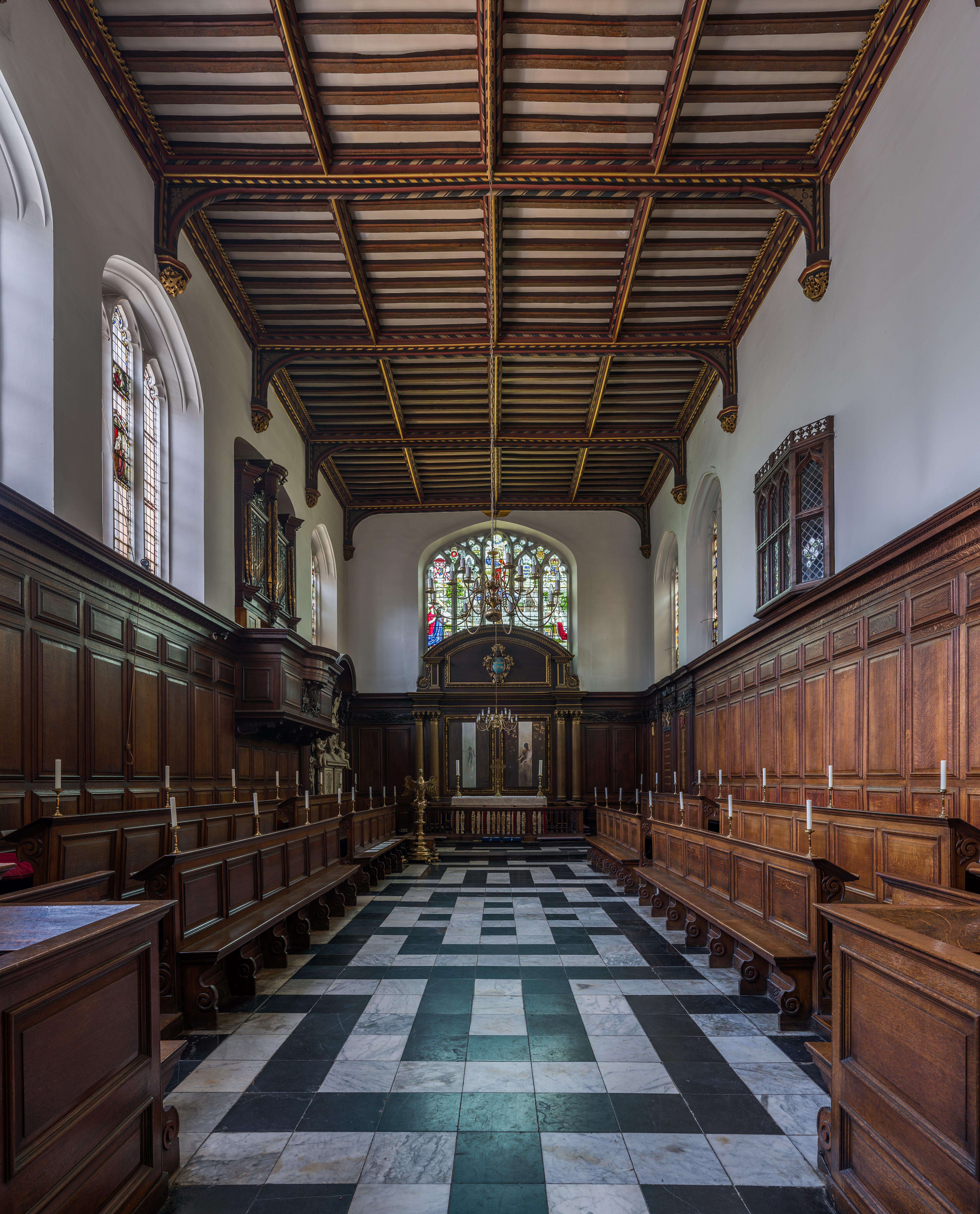 The chapel of Christ's Church Chapel, Cambridge, England.